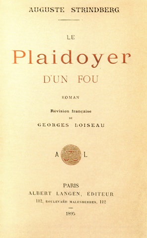 Cover for the 1895 novel Le plaidoyer d'un fou (The Defence of a Fool) by August Strindberg.